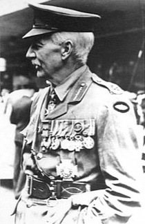 AWM caption : PORTRAIT OF SIR JOHN GELLIBRAND ON THE OCCASION OF THE LAST MARCH LED BY HIM IN MELBOURNE ON 1939-04-25.